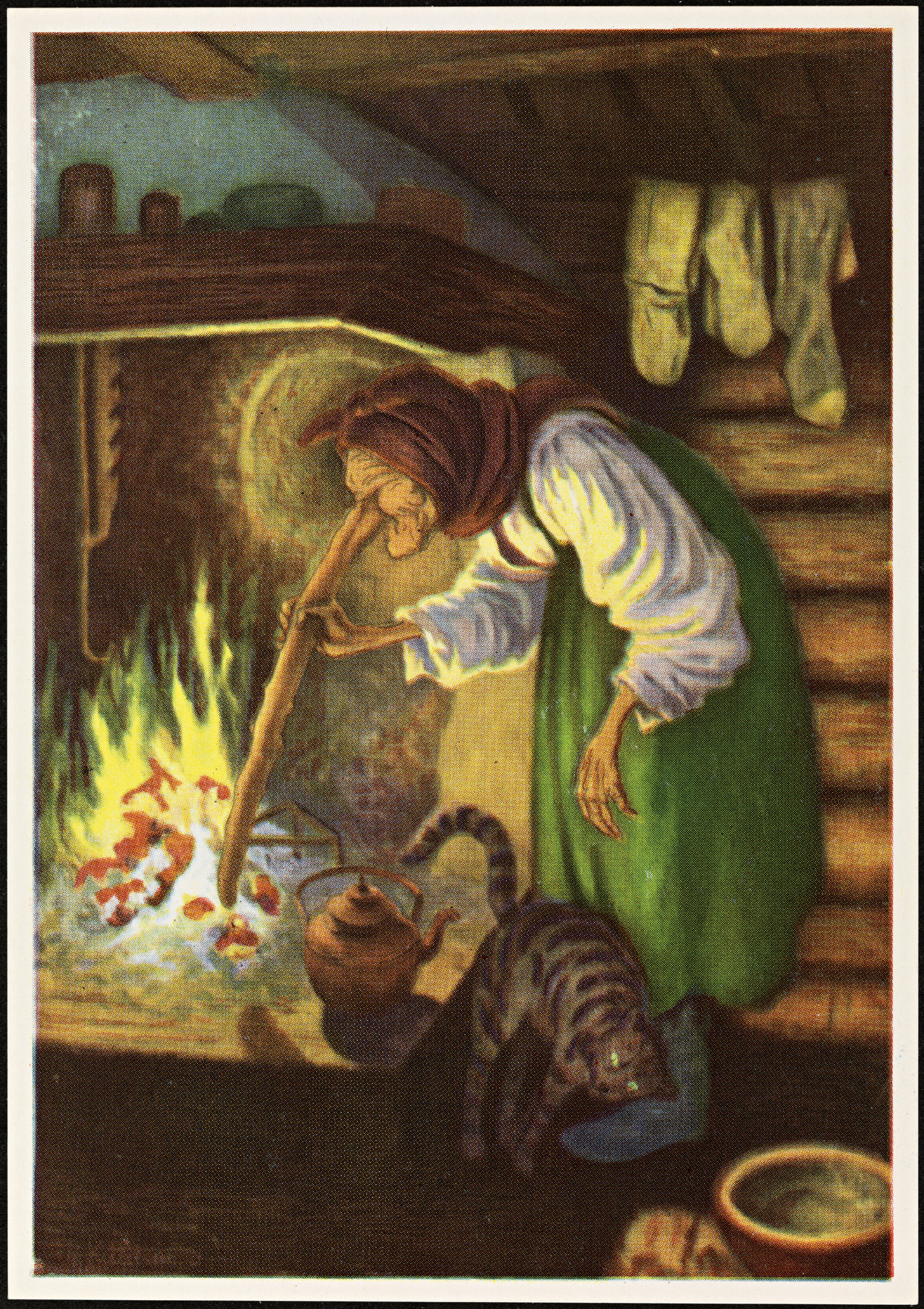 Tittel / Title: Th. Kittelsen: Kjerringa ved peisen Motiv / Motif: Postkort. Dato / Date: ukjent / unknown Kunstner / Artist: Theodor Kittelsen (1857-1914) Utgiver / Publisher: Mittet & Co. Eier / Owner Institution: Nasjonalbiblioteket / National Library of Norway Lenke / Link: Bildesignatur / Image Number: blds_04827